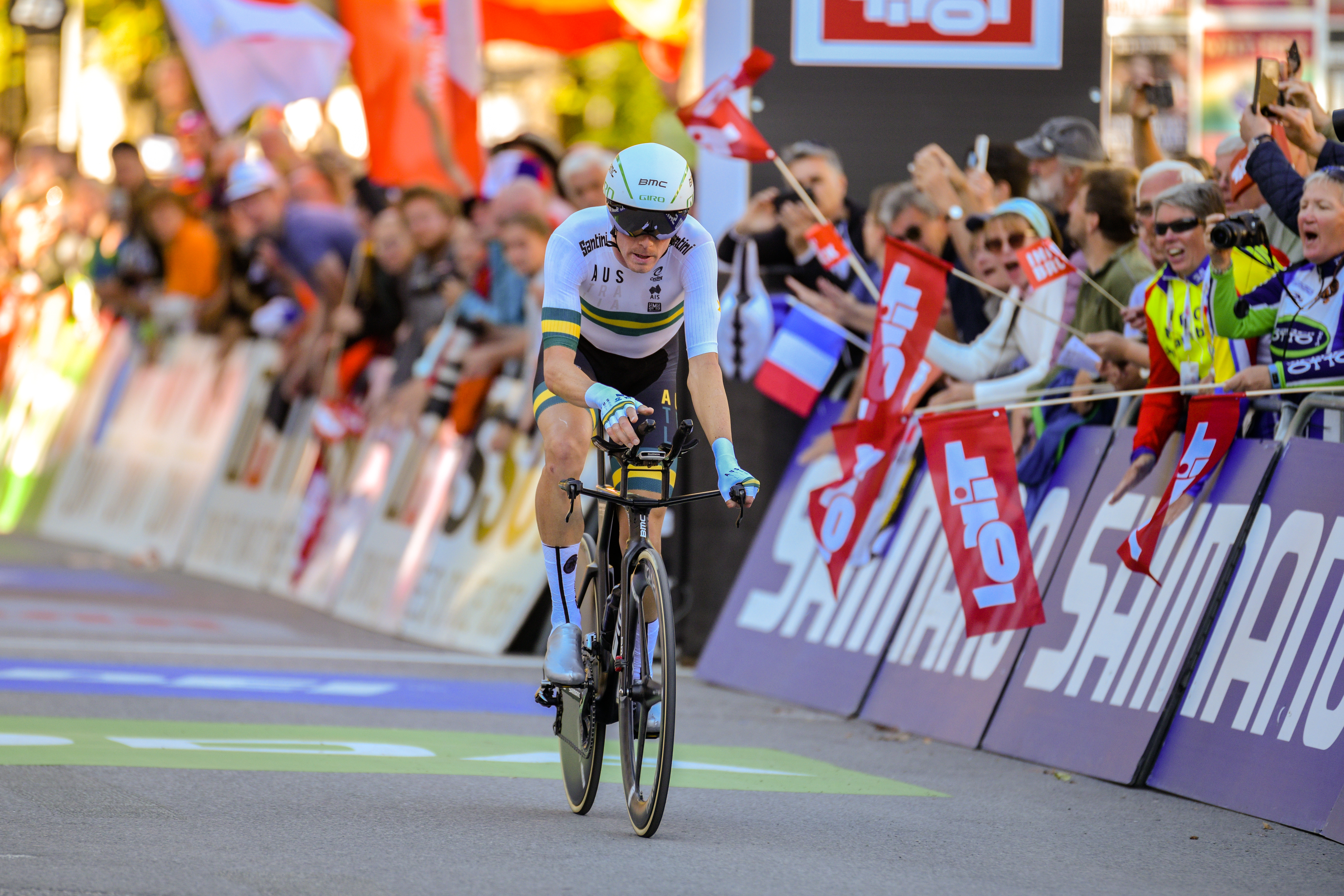 2018 UCI Road World Championships Innsbruck/Tirol Men's Individual Time Trial. Picture shows: Rohan Dennis of Australia